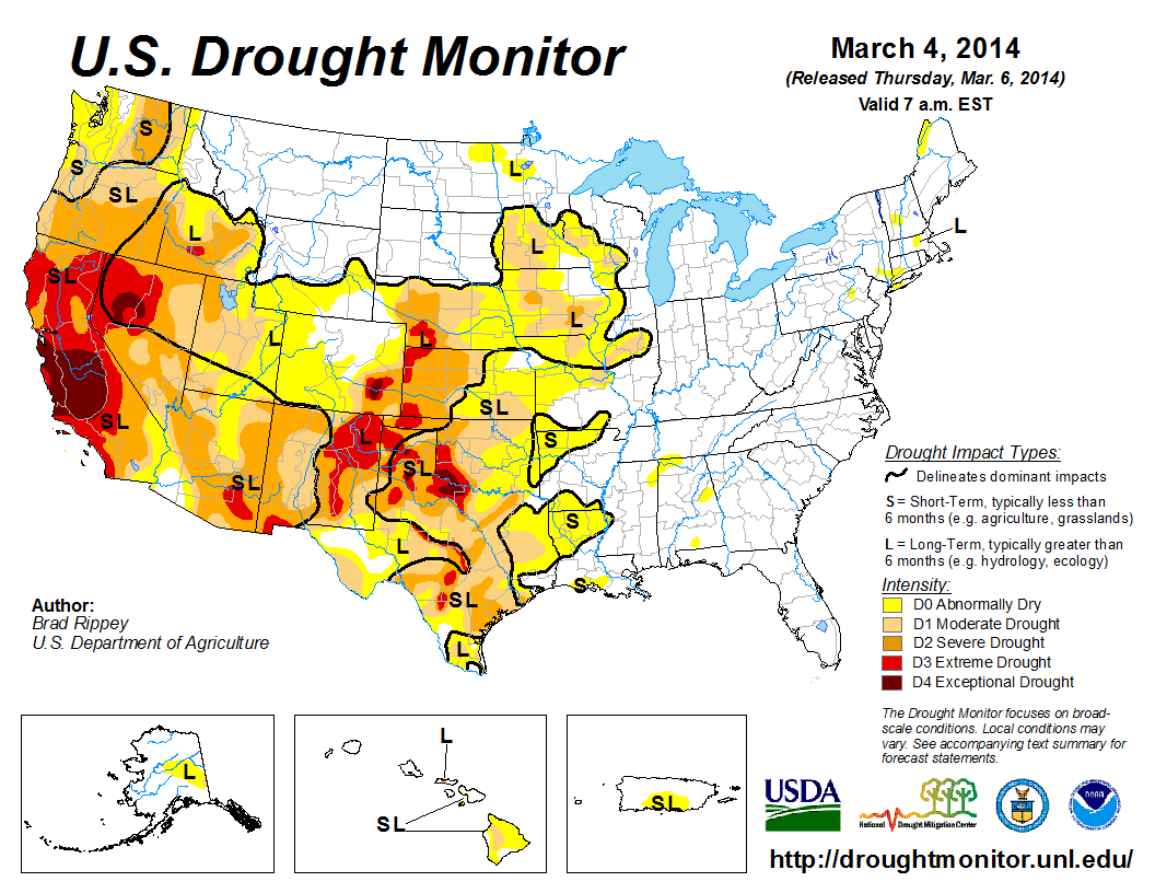 Drought Monitor, Mar 4th 2014